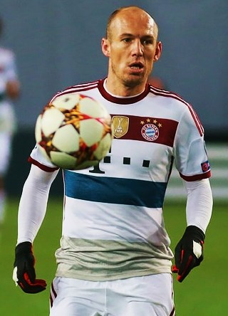 Arjen Robben